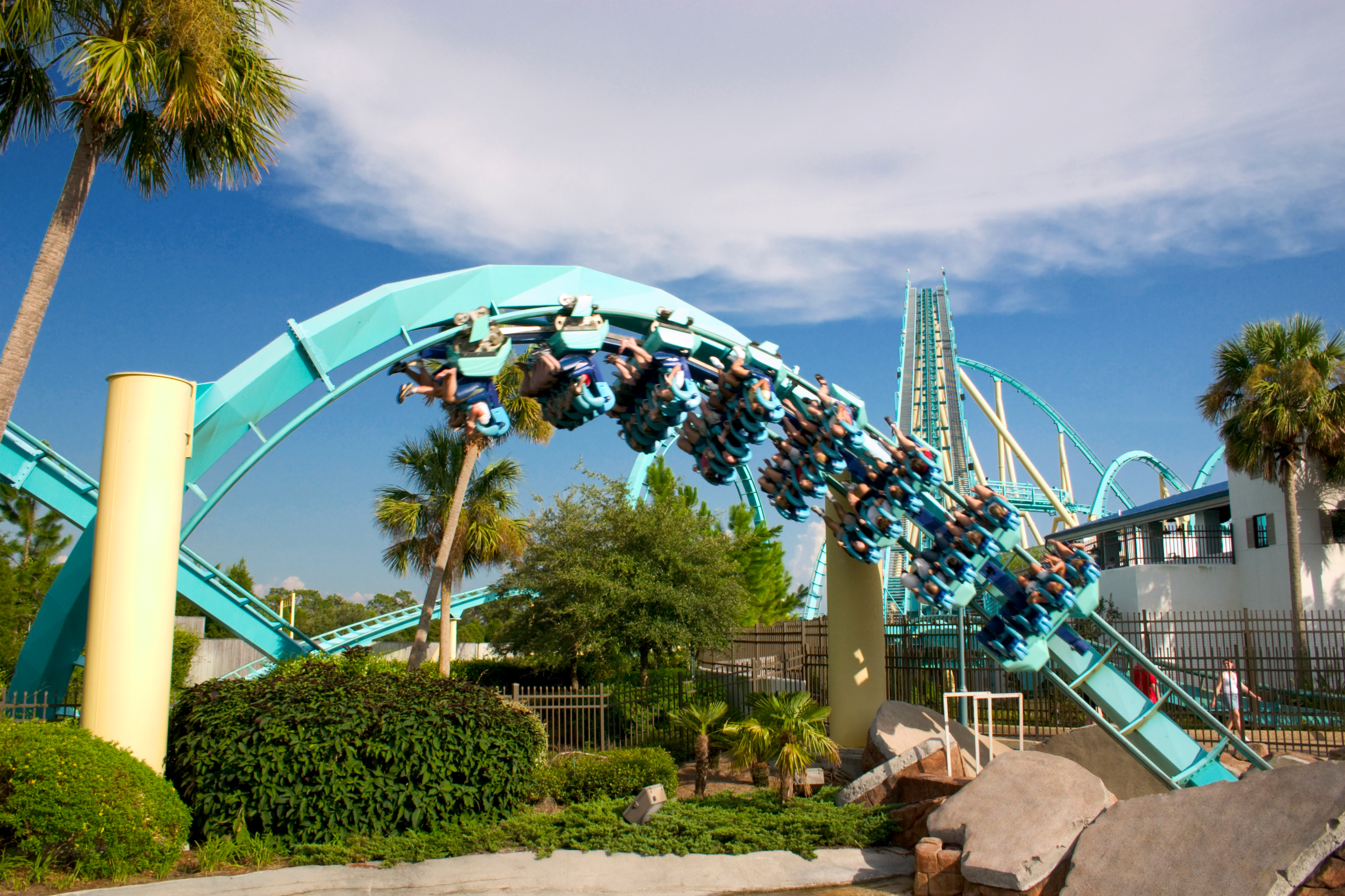 The Kraken roller coaster at SeaWorld in Orlando, Florida is known for its several loops.